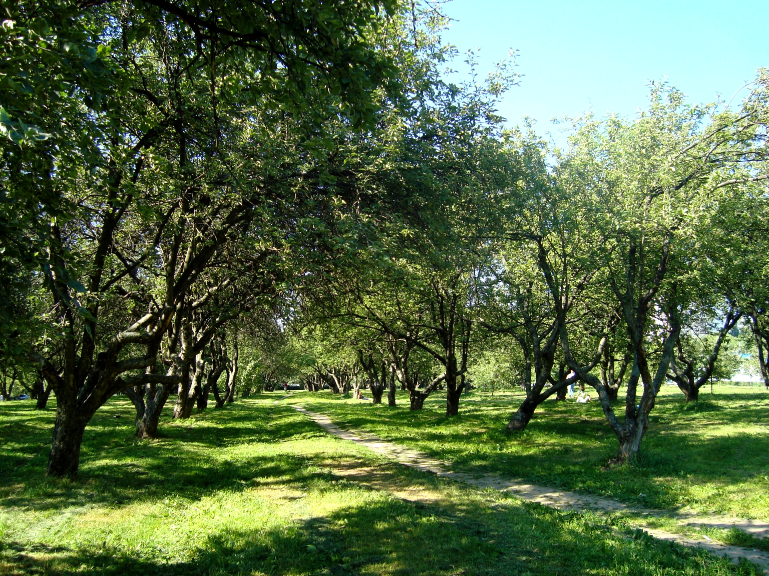 Old apple garden in Zyablikovo. Moscow, Russia